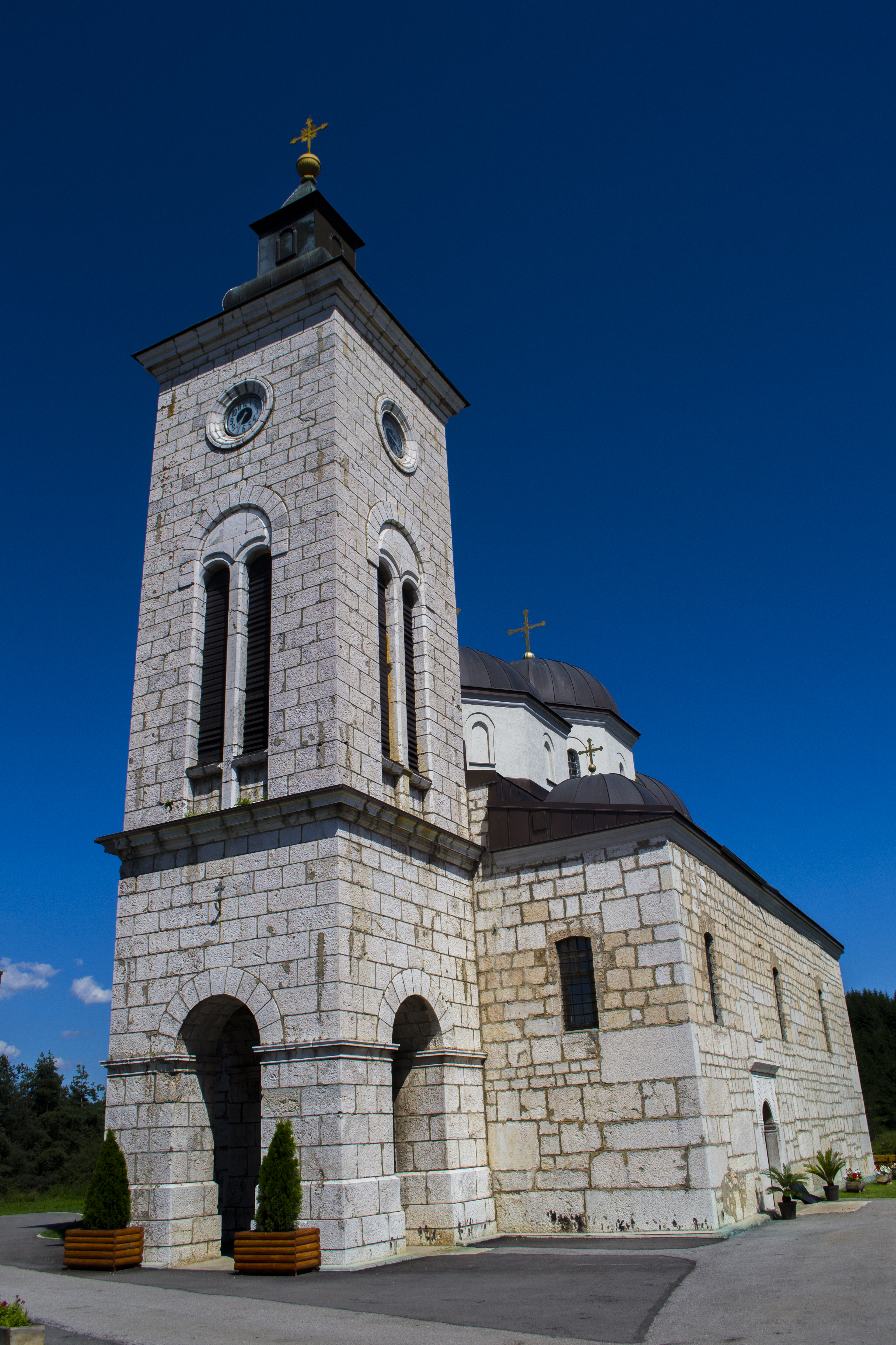 This image was uploaded as part of Trace of Soul 2016.